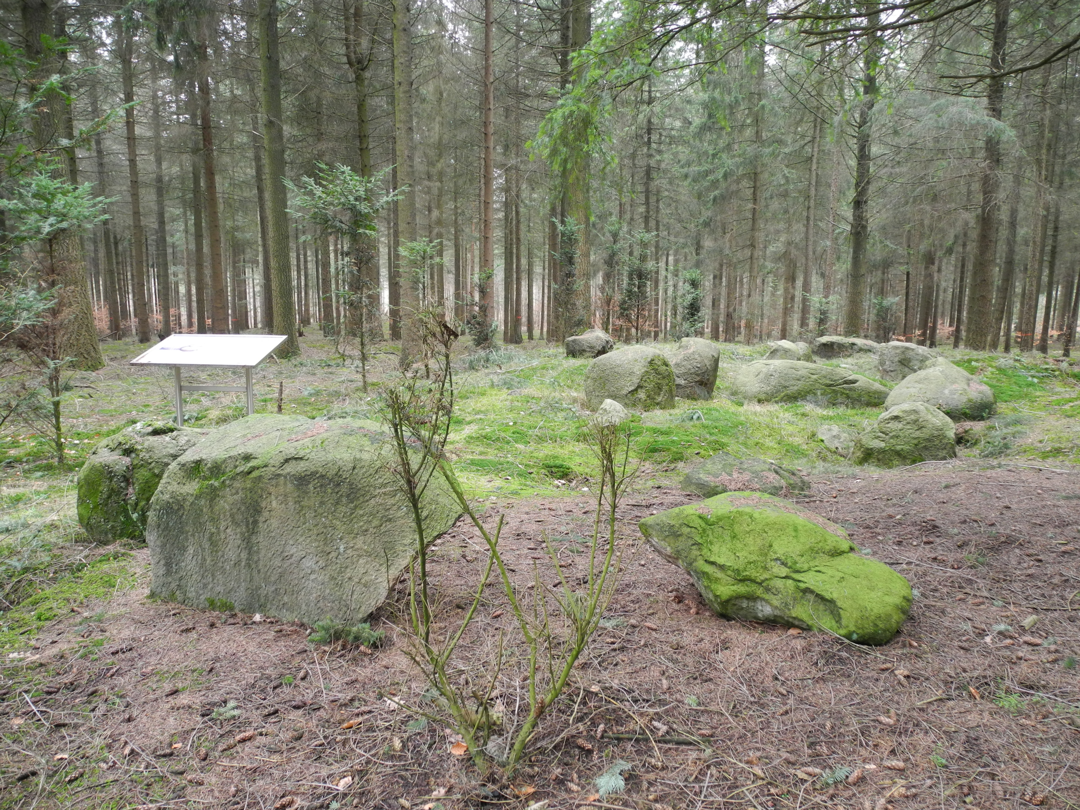 Megalithic tomb "Reinecke" (district Osnabrück in Lower Saxony, Germany).